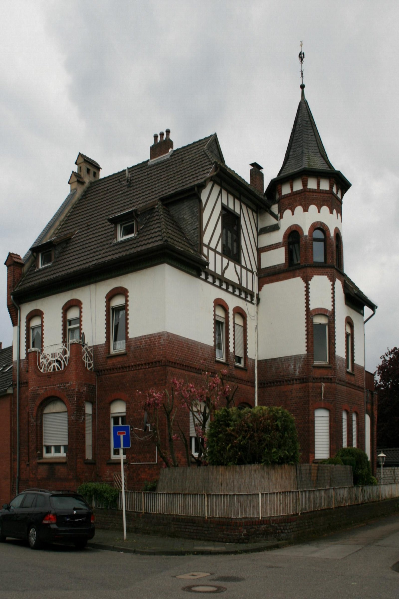 Cultural heritage monument No. W 038 in Mönchengladbach